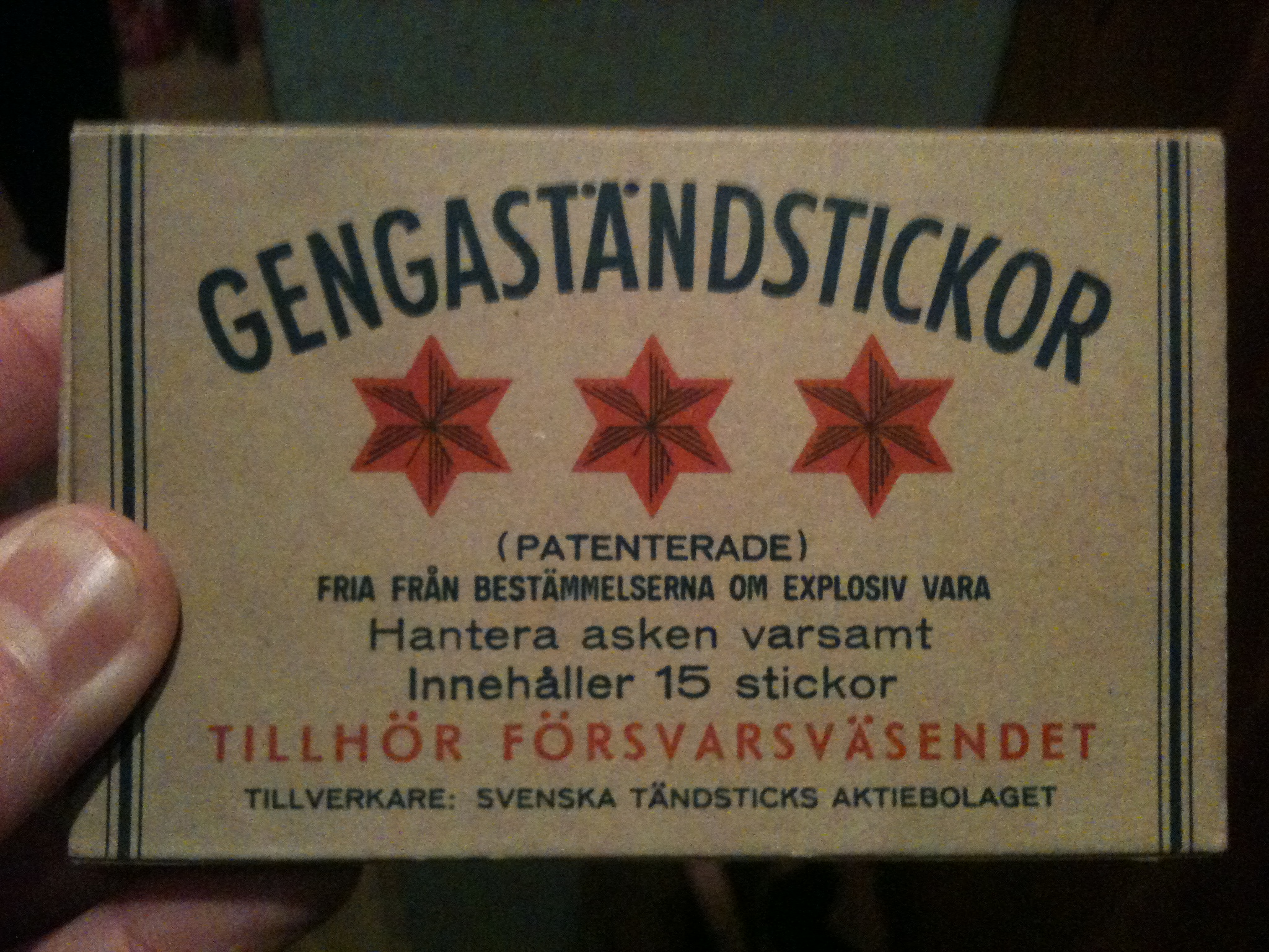 A box of generator gas lighters from swedish army. Date manufactured unknown.